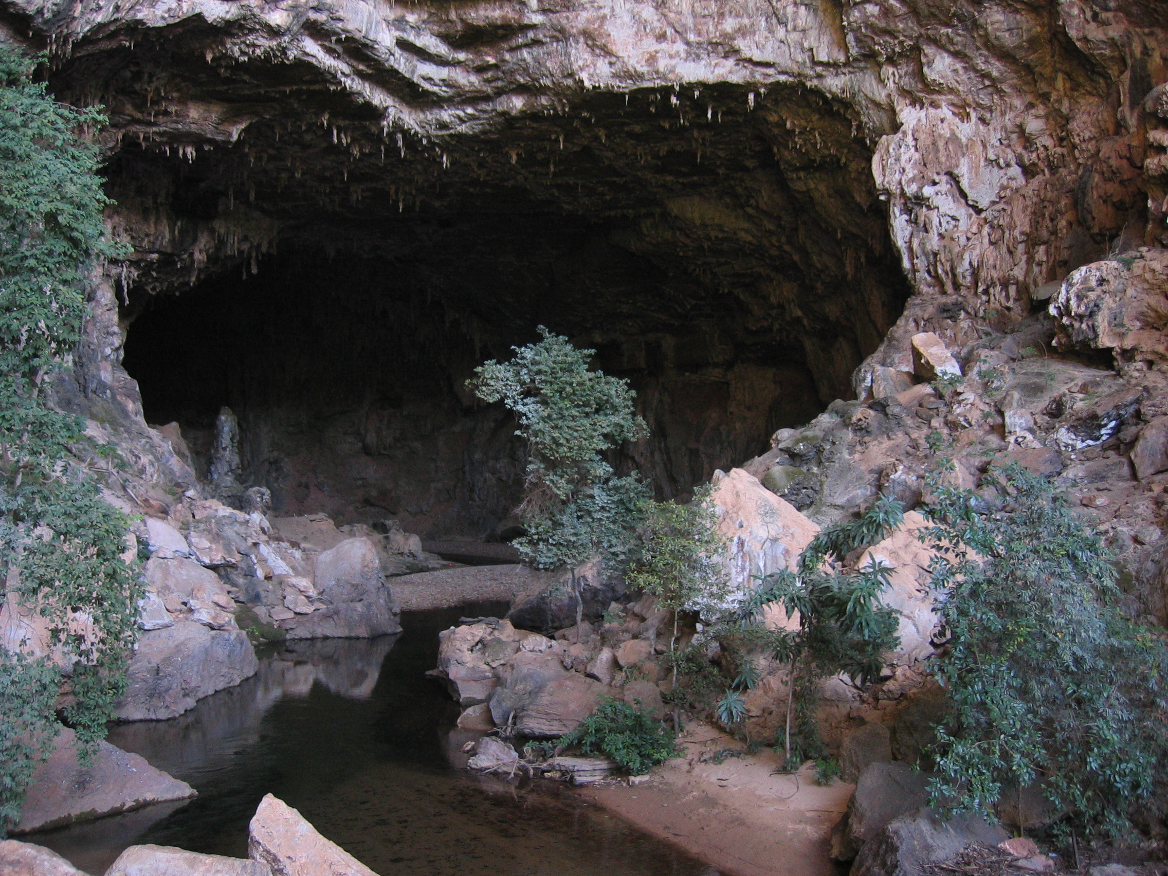 Terra Ronca Cave, at the Terra Ronca State Park (located between the towns of Guarani de Goiás and São Domingos - Goiás - BRAZIL